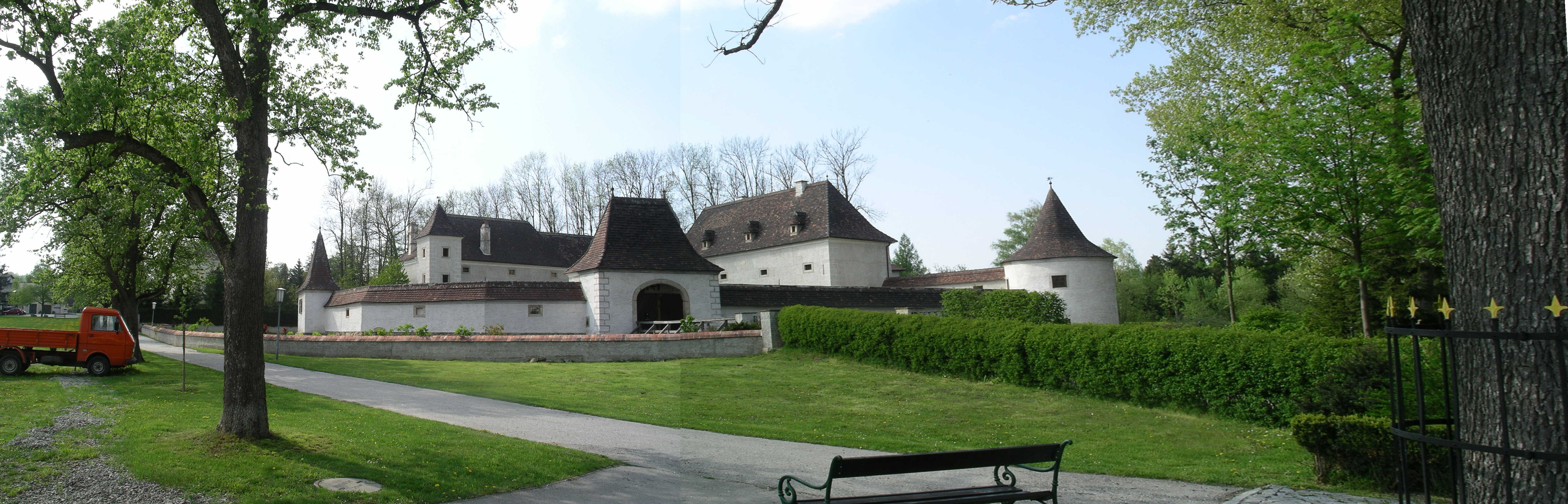 Photograph of Totzenbach castle, Lower Austria.